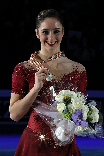 Kaetlyn Osmond wins silver at the 2017 World Championships